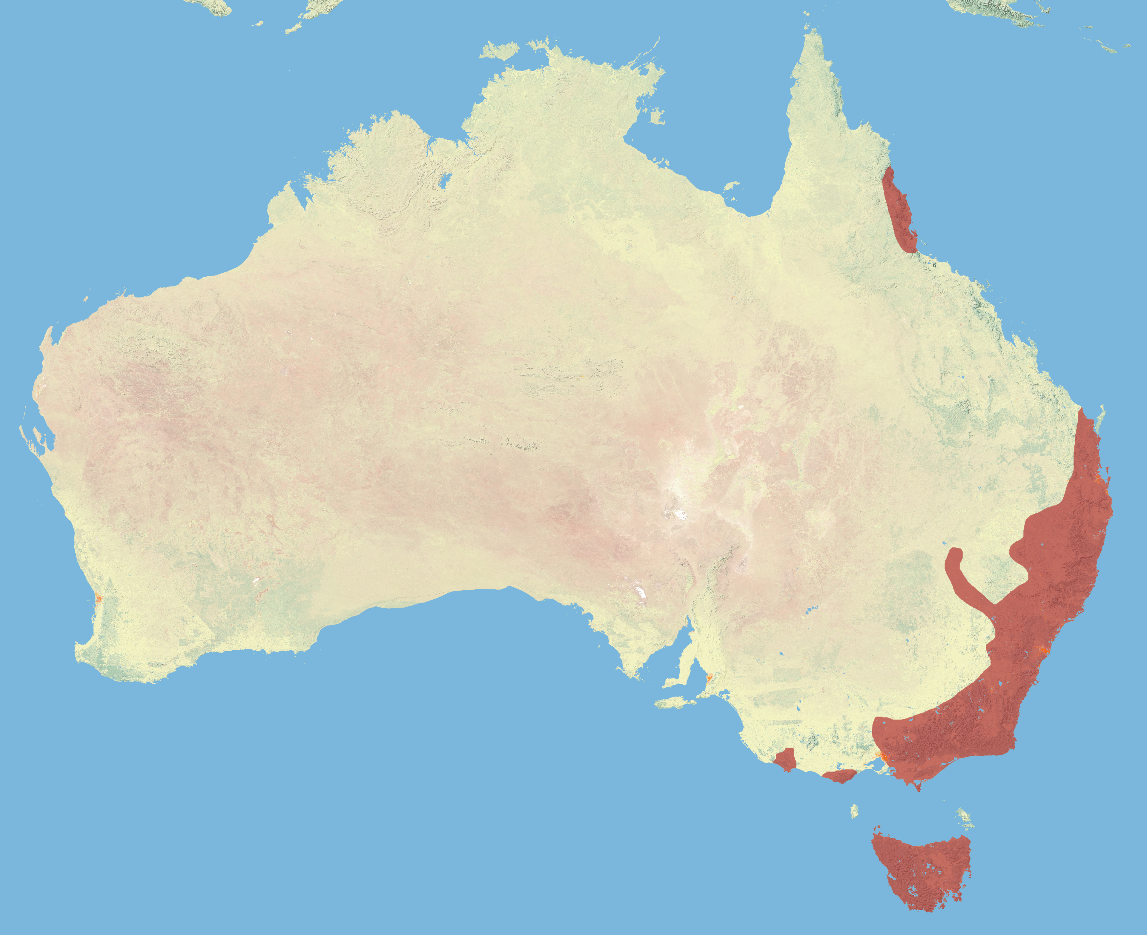 The Distribution of the Spot-tailed Quoll According to the IUCN